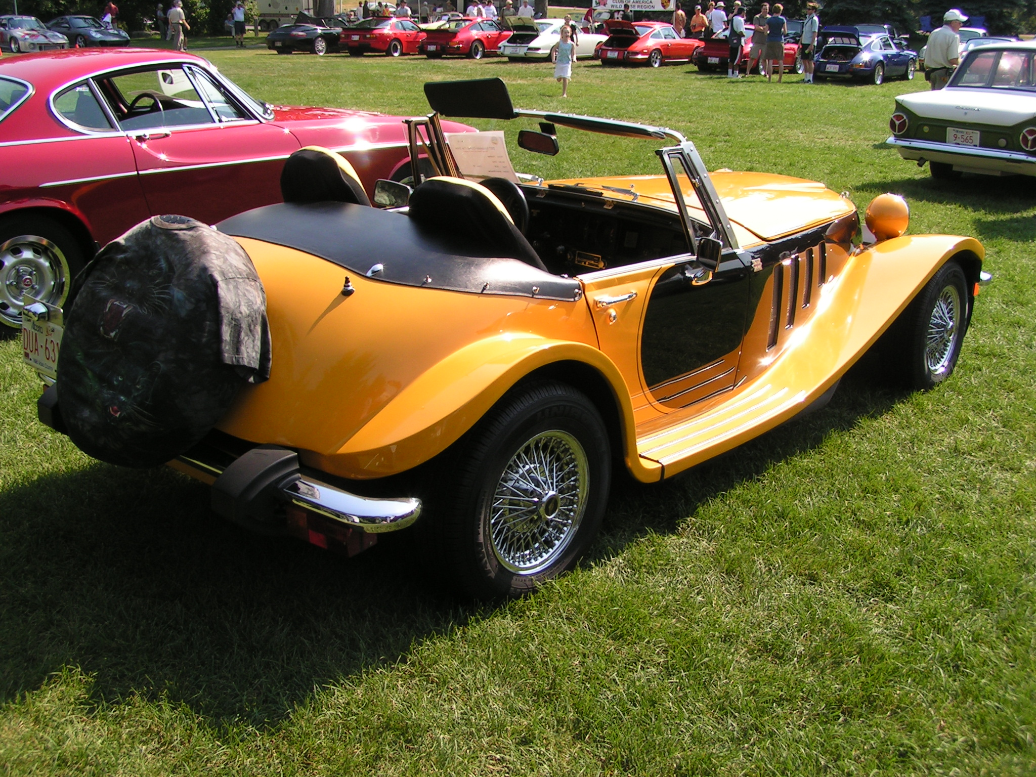 Powered by a turbo Vauxhall 2.3L engine.